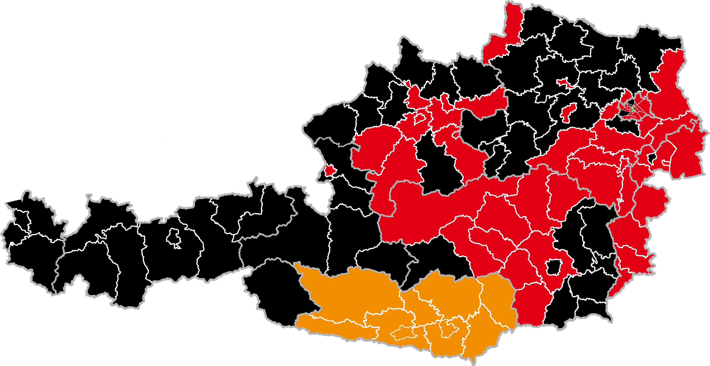 Austrian legislative election 2008 result by district